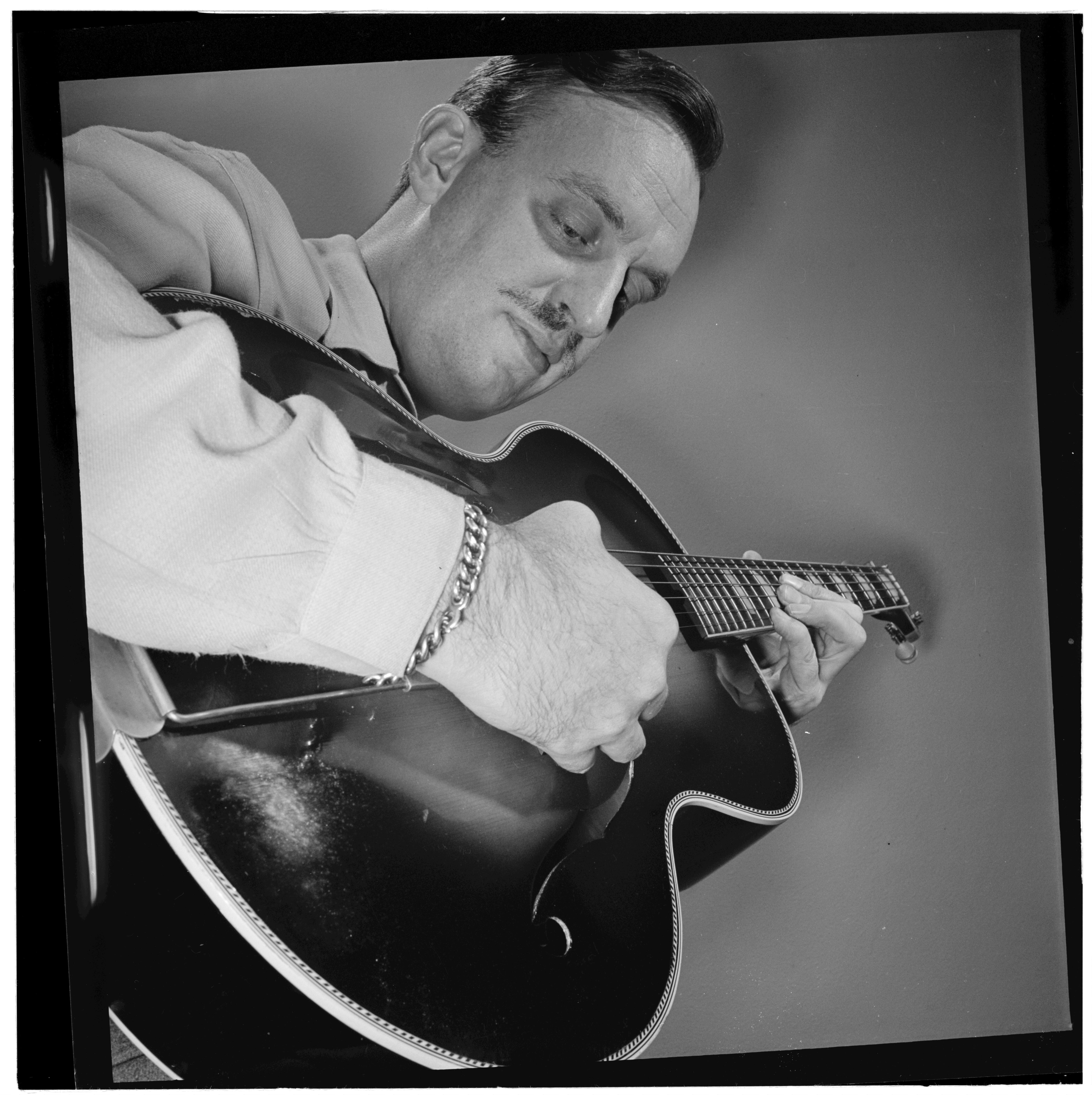 Gottlieb, William P., 1917-, photographer. [Portrait of Brick Fleagle, New York, N.Y., between 1946 and 1948] 1 negative : b&w ; 2 1/4 x 2 1/4 in. Notes: Gottlieb Collection Assignment No. 515 Reference print available in Music Division, Library of Congress. Purchase William P. Gottlieb Forms part of: William P. Gottlieb Collection (Library of Congress). Subjects: Fleagle, Brick Jazz musicians--1940-1950. Guitarists--1940-1950. Format: Portrait photographs--1940-1950. Film negatives--1940-1950. Rights Info: Mr. Gottlieb has dedicated these works to the public domain, but rights of privacy and publicity may apply. Repository: (negative) Library of Congress, Prints & Photographs Division, Washington D.C. 20540 USA, (reference print) Library of Congress, Music Division, Washington D.C. 20540 USA, Part Of: William P. Gottlieb Collection (DLC) 99-401005 General information about the Gottlieb Collection is available at Persistent URL: Call Number: LC-GLB23- 0293 This work is from the William P. Gottlieb collection at the Library of Congress. Rights and restrictions.In accordance with the wishes of William Gottlieb, the photographs in this collection entered into the public domain on February 16, 2010.